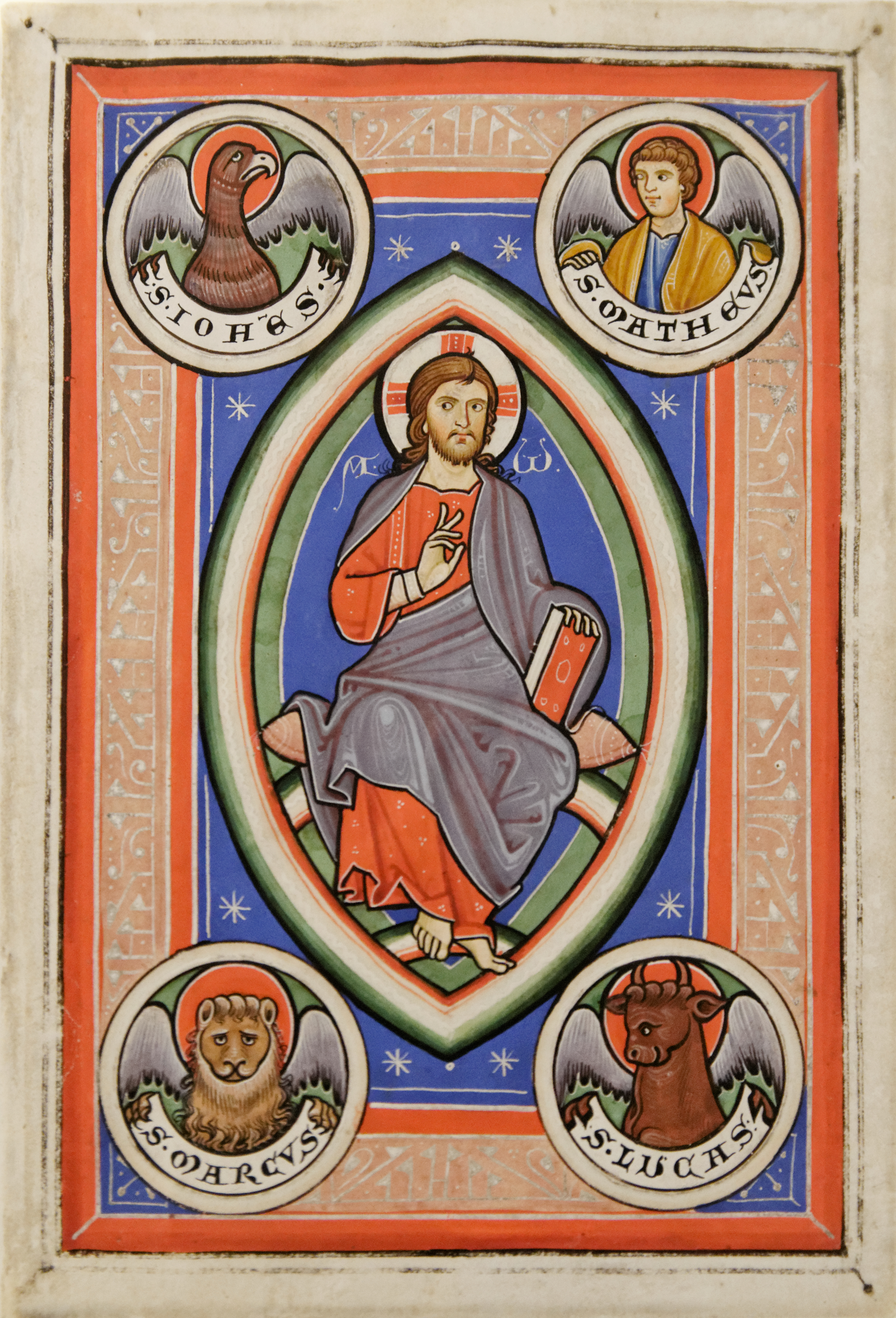 The Ascension of Christ, leaf from a psalter, Upper Rhine.